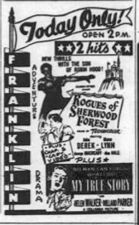 Franklin Theater advertisement for the American films Rogues of Sherwood Forest (1950) and My True Story (1951) - 30 Mar. 1952 Morning Call Allentown PA